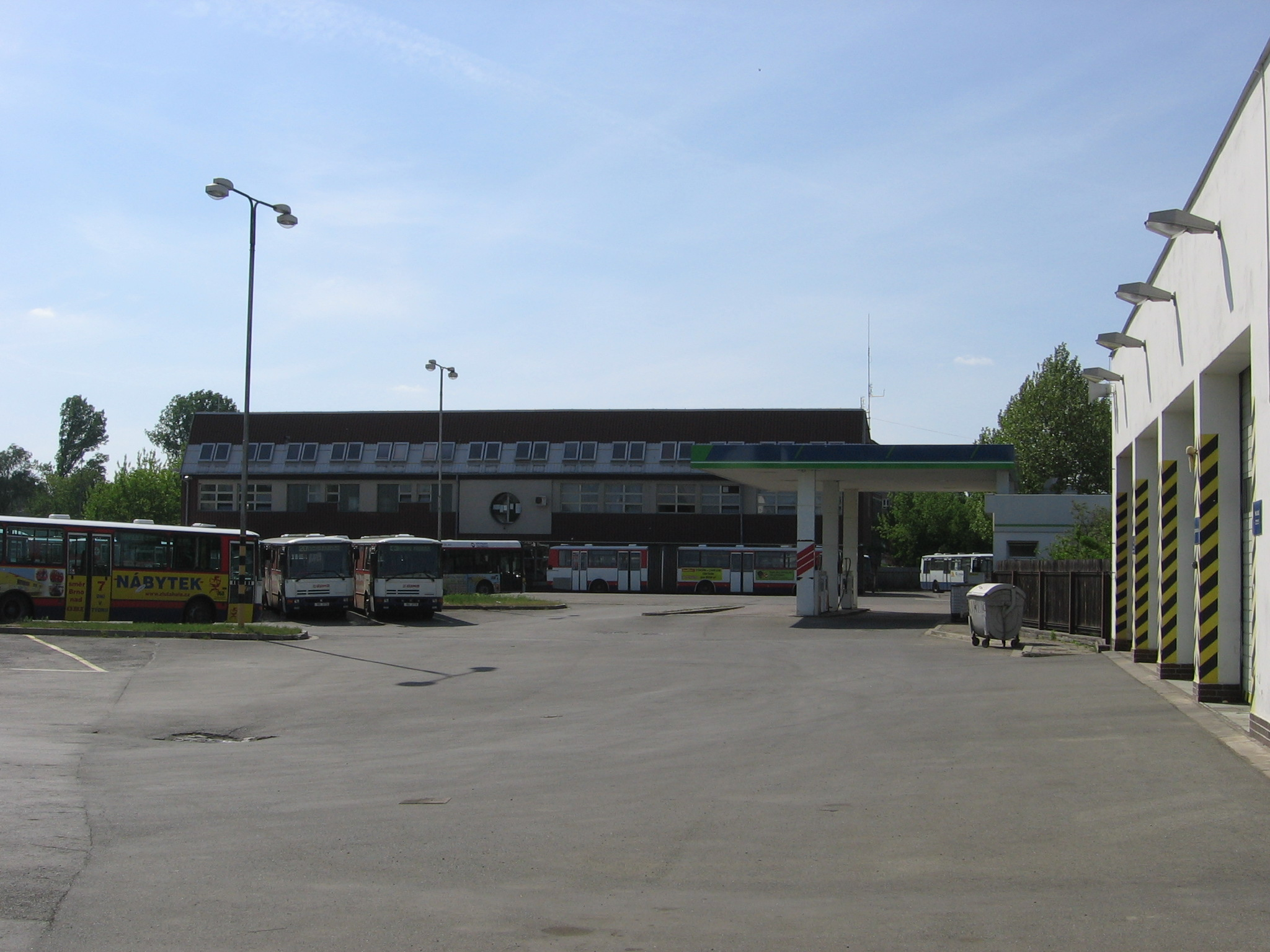 Bus Depot in Olomouc (Czech Republic)